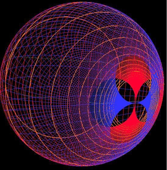 3D Smith Chart representation generated by the non-commercial tool available at 3D Smith Chart